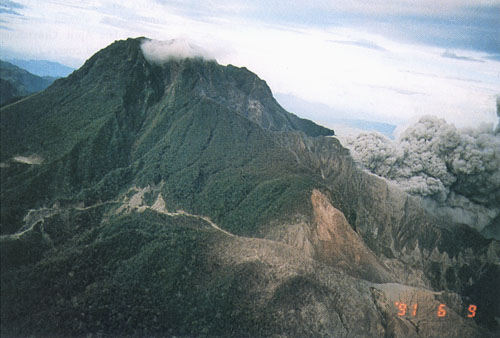 Pre-eruption Mount Pinatubo, viewed from the northeast. The April 2, 1991, phreatic explosion craters (lower right, adjacent to '91 in date stamp) and the eventual location of June 7-12 dome extrusion (beneath the ash cloud) were aligned northeast-southwest across the north face of Mount Pinatubo (map of craters in Wolfe and Hoblitt, this volume). The ridge in the foreground may have been the wall of a prehistoric caldera that was only slightly larger than that which formed in 1991. (R.P. Hoblitt, June 9, 1991) USGS: Photographic Record of Rapid Geomorphic Change at Mount Pinatubo, 1991-94